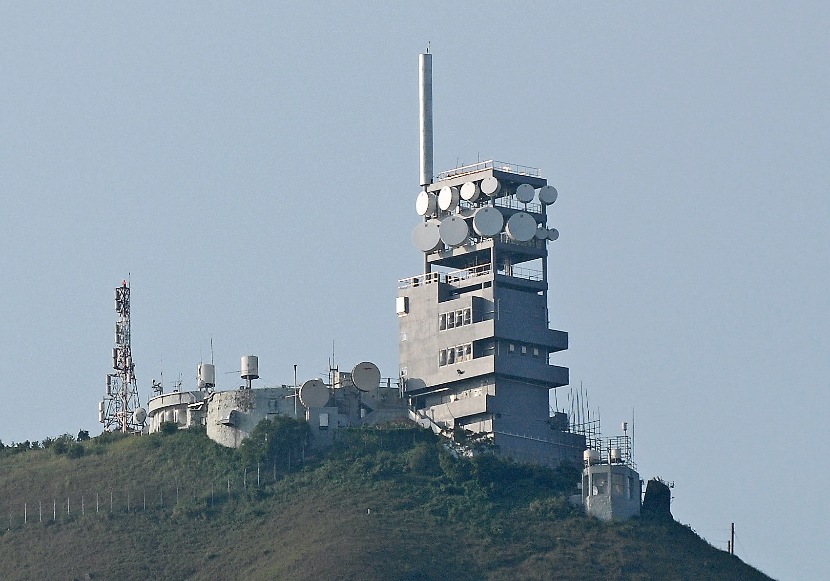 Digital TV transmission tower of Hong Kong Broadcasting